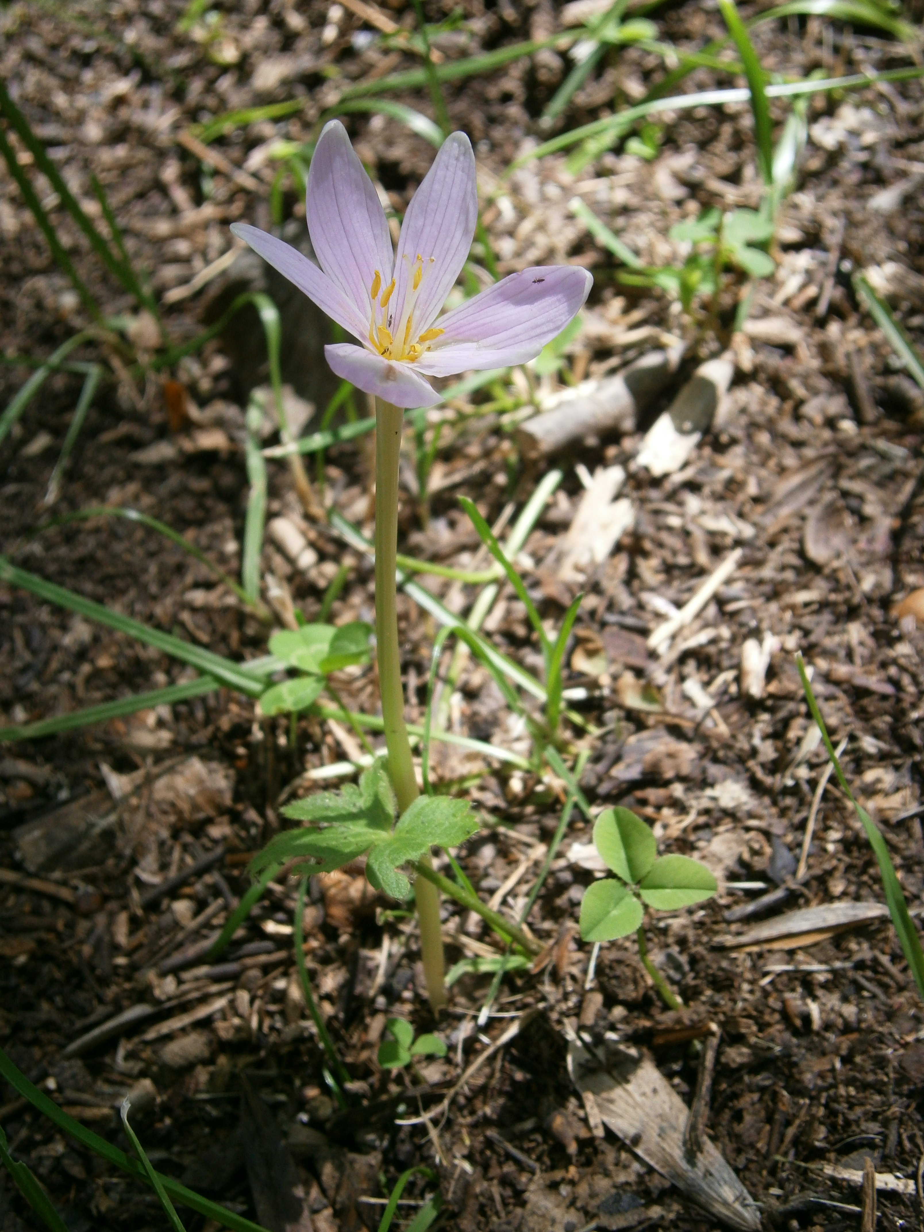 Colchicum alpinum in the Grandes Rousses